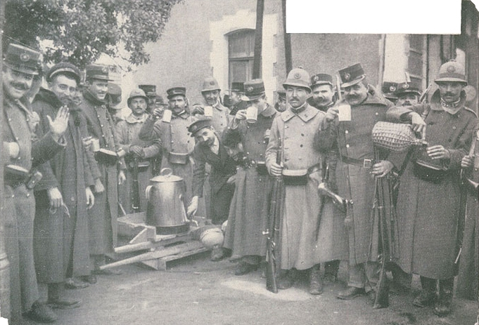 Distribution of drinks to the soldiers of the Republican Guard (Guarda Nacional Republicana) at Campolide train station, in Portugal, during a railway workers strike. This image was published on the Ilustração Portuguesa magazine No. 414, of the 26th January 1914, scanned by the Hemeroteca Municipal de Lisboa.